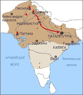 Map of Maurya_Empire (ukrainian)